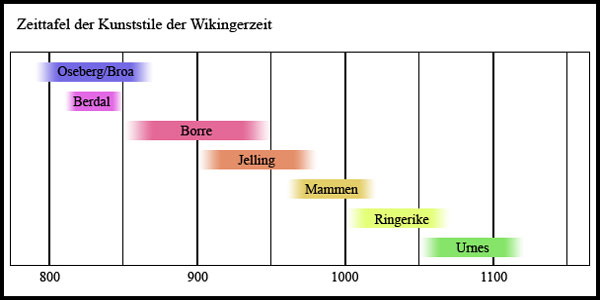 Timetable of art styles in the Viking era